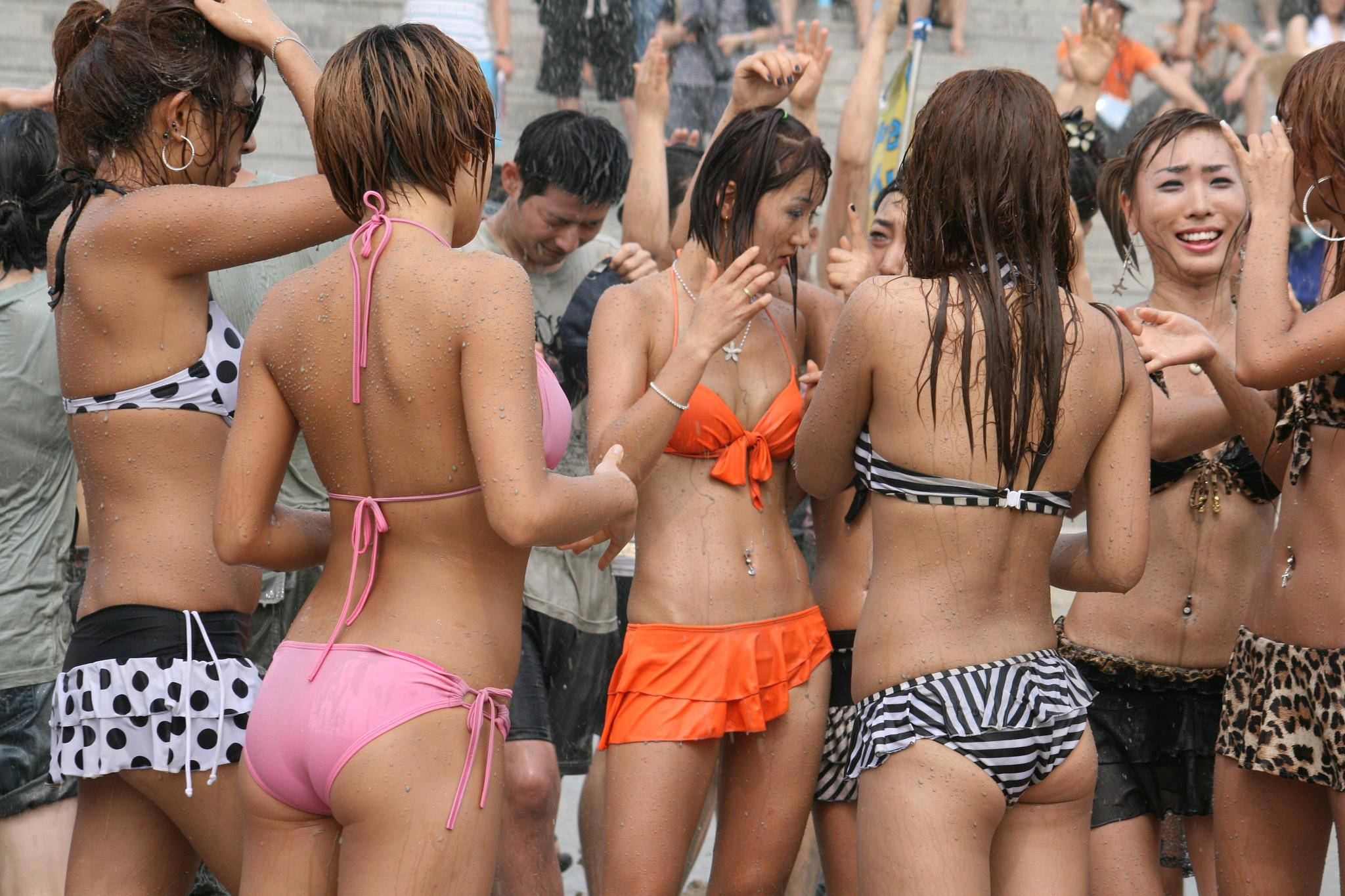 Bikini girls at the Boryeong Mud Festival 2008.